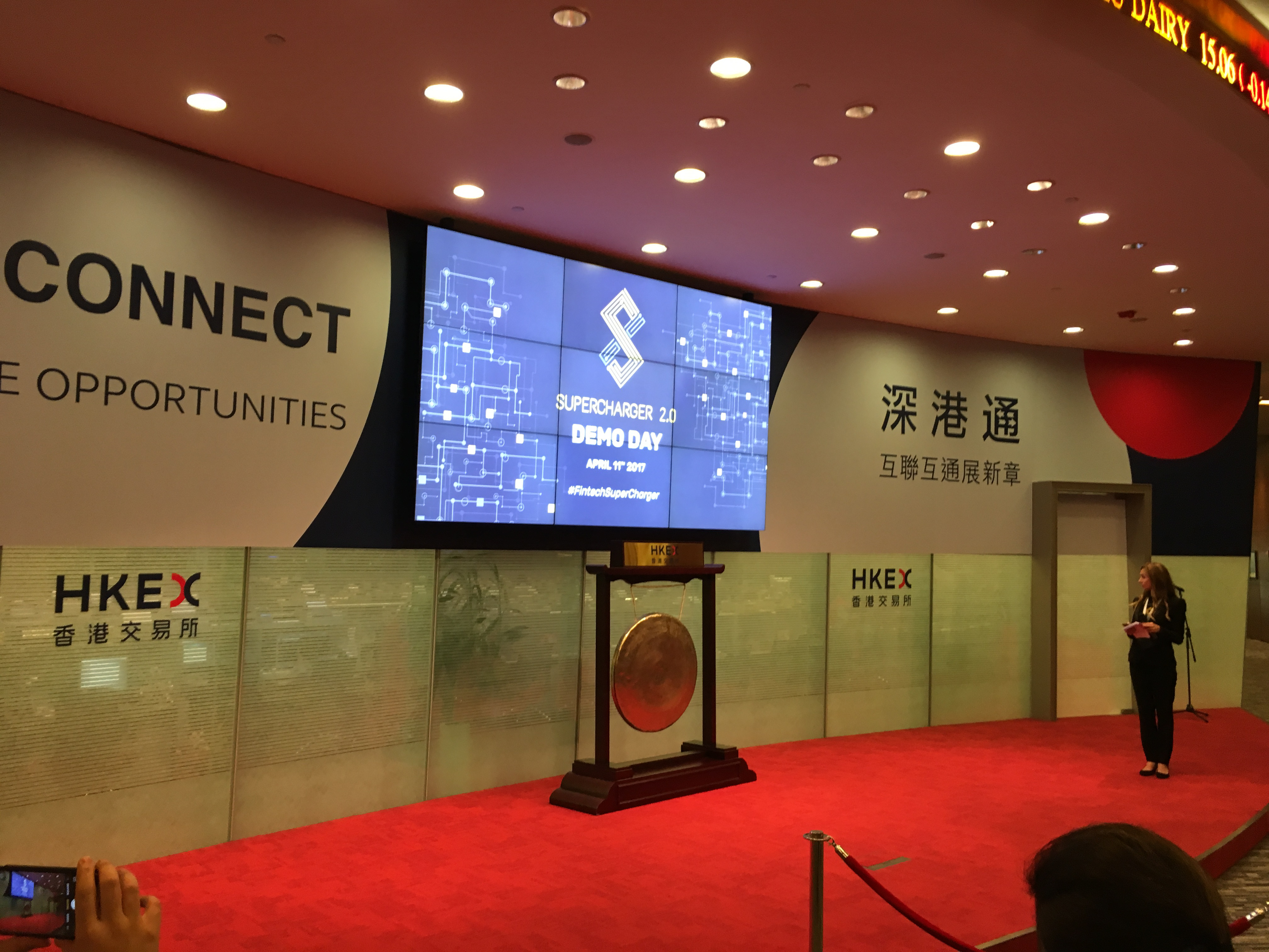 The stage where the HKEx holds market opening and closing ceremony. Also served as a place for networking and public relations after an IPO ceremony.